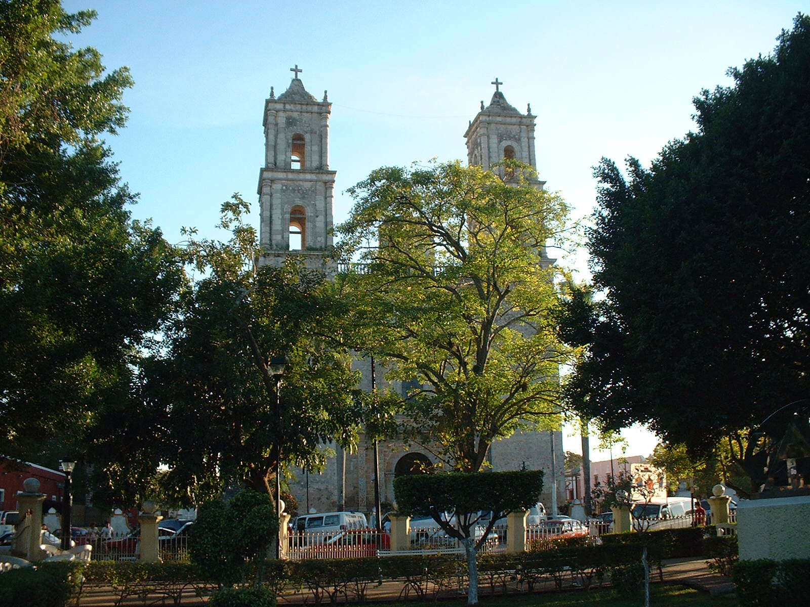 Kathedraal van Valladolid, Mexico. Cathedral of Valladolid in Mexico.